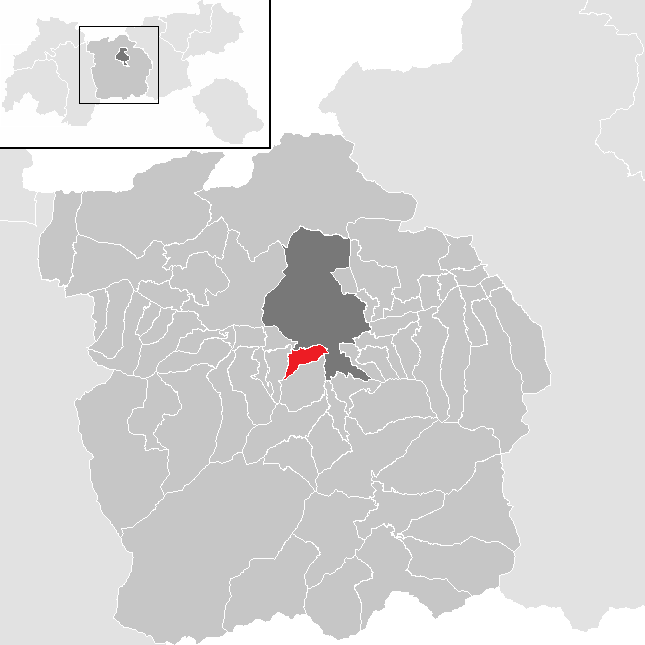 District Innsbruck Land